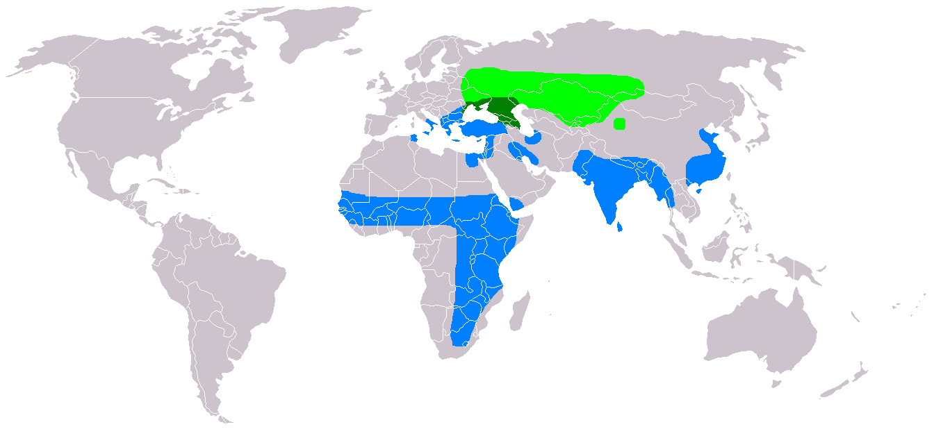 Distribution of Circus macrourus nesting area resident all year wintering area